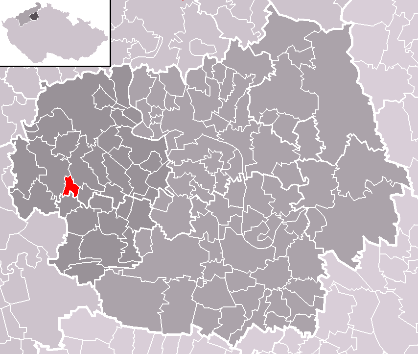 Location of Dlažkovice municipality within Litoměřice District and administrative area of Lovosice as a Municipality with Extended Competence.